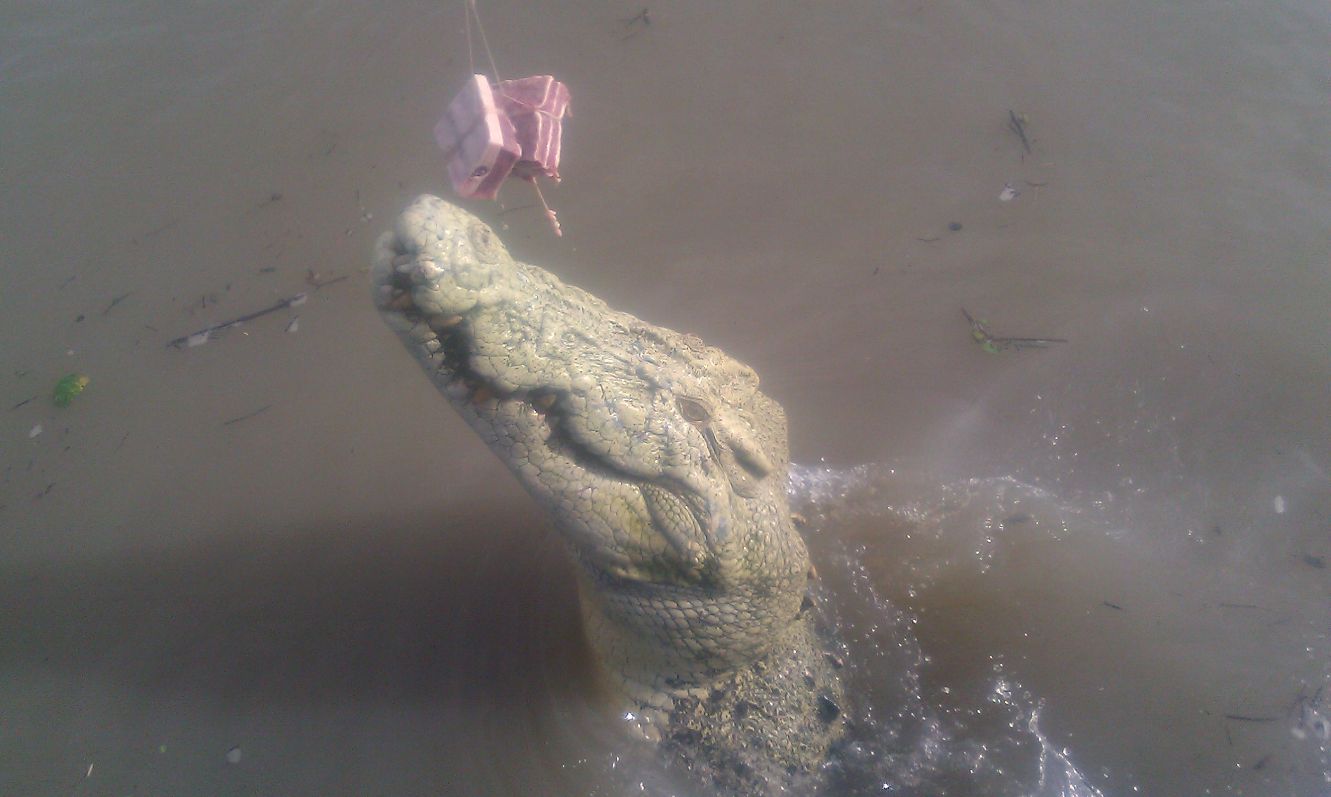 a saltwater crocodile jumping for a piece of meat at Adelaide River, NT, Australia in March 2012